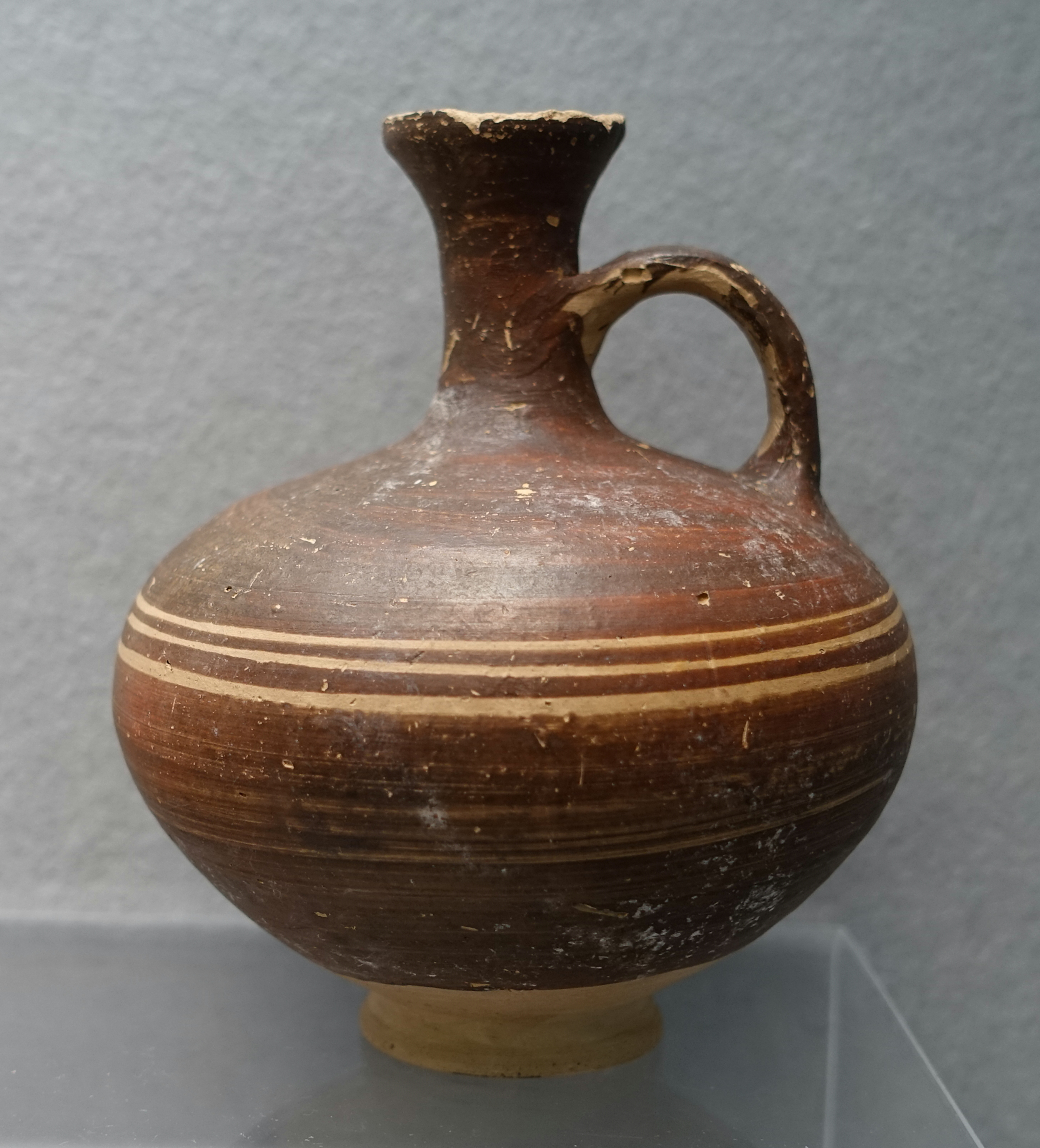 Exhibit in the Martin von Wagner Museum - Würzburg, Germany.